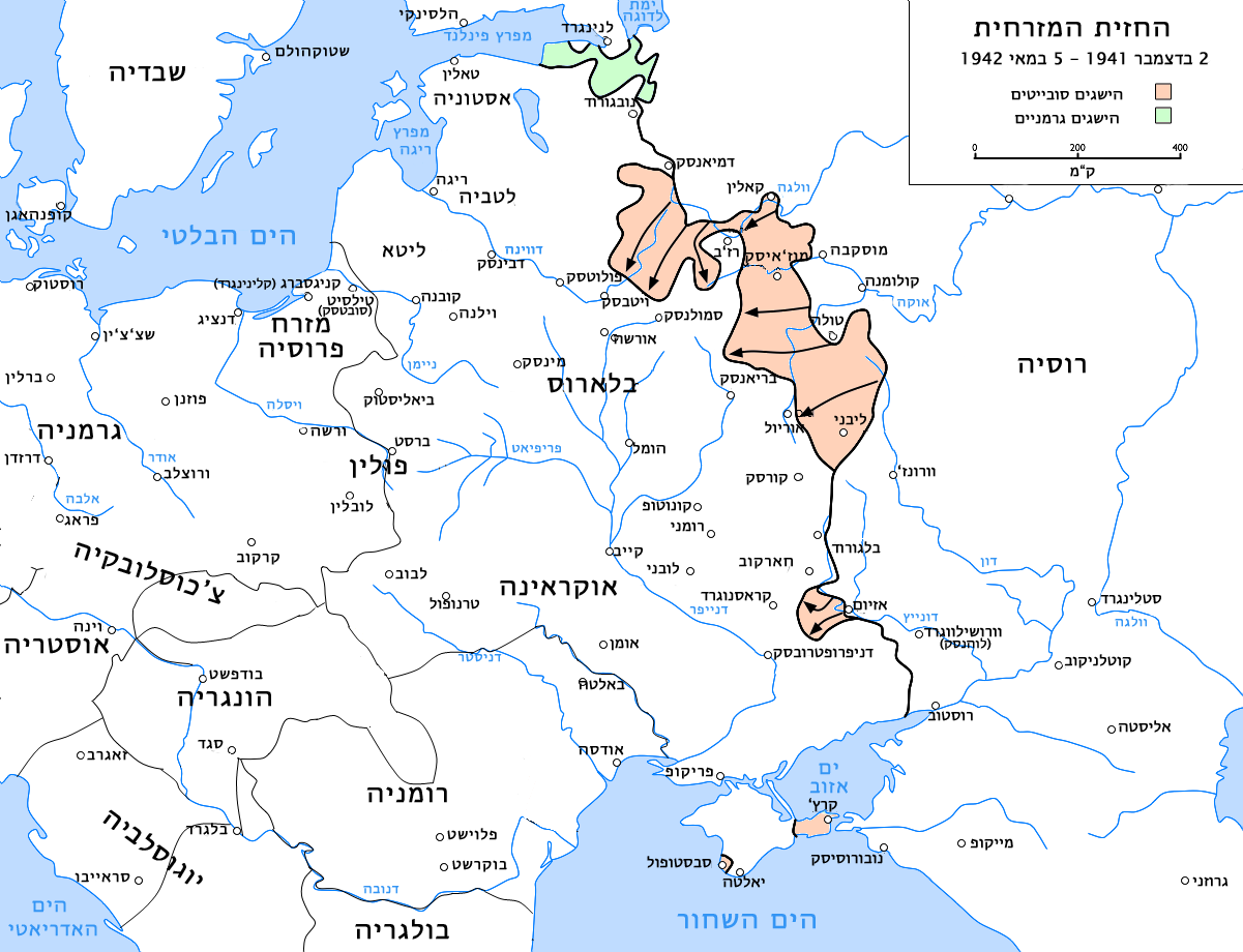 Description Map of the Eastern Front (WWII), 1941-12-05 to 1942-05-05 ;Author :Gdr, Wikipedia (EN) user ;Source :Uploaded to WP:EN by the author (see below) ;License